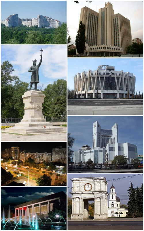 A montage of Commons images of Chișinău, Moldova.